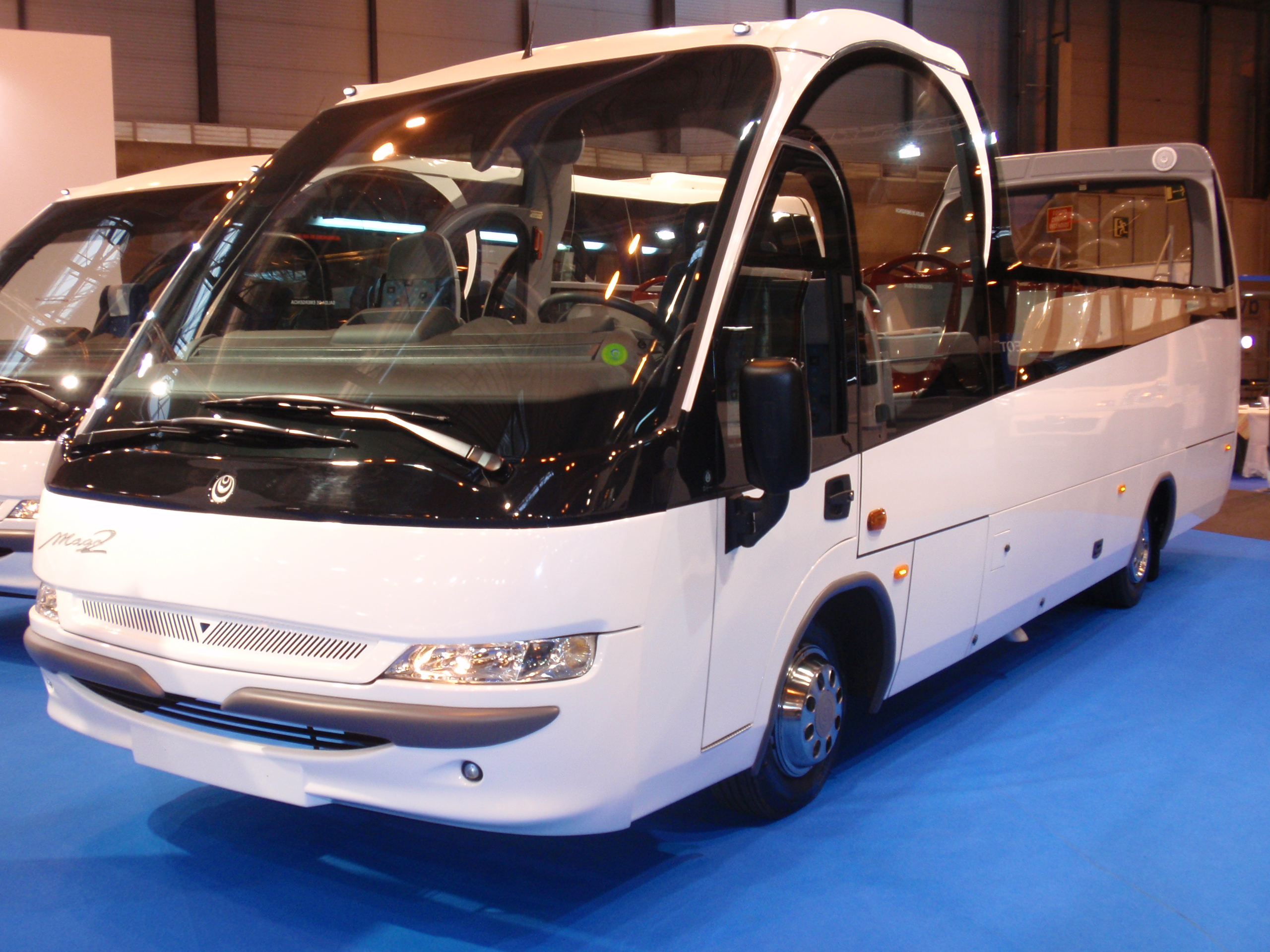 Indcar Mago 2 Cabrio bus at the 2008 FIAA (International Bus and Coach Fair) in Madrid, Spain.